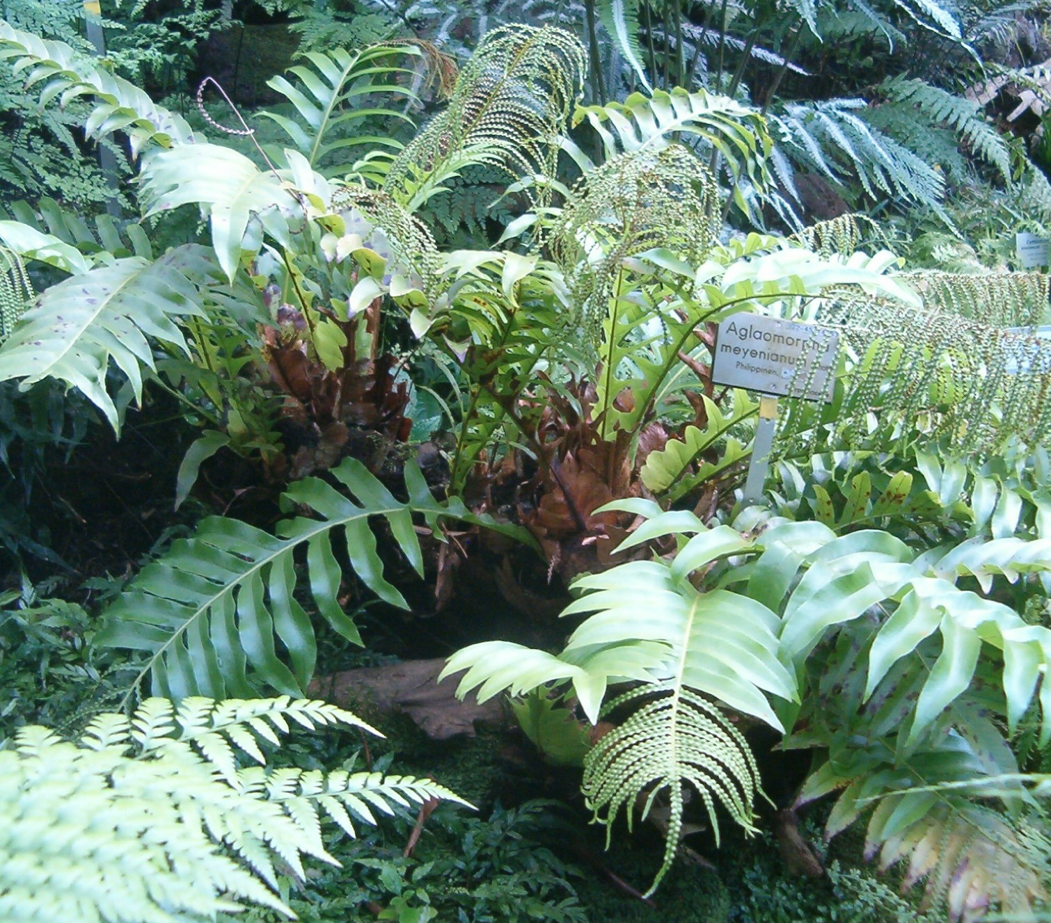 At Botanical Gardens Berlin-Dahlem Species Aglaomorpha meyeniana